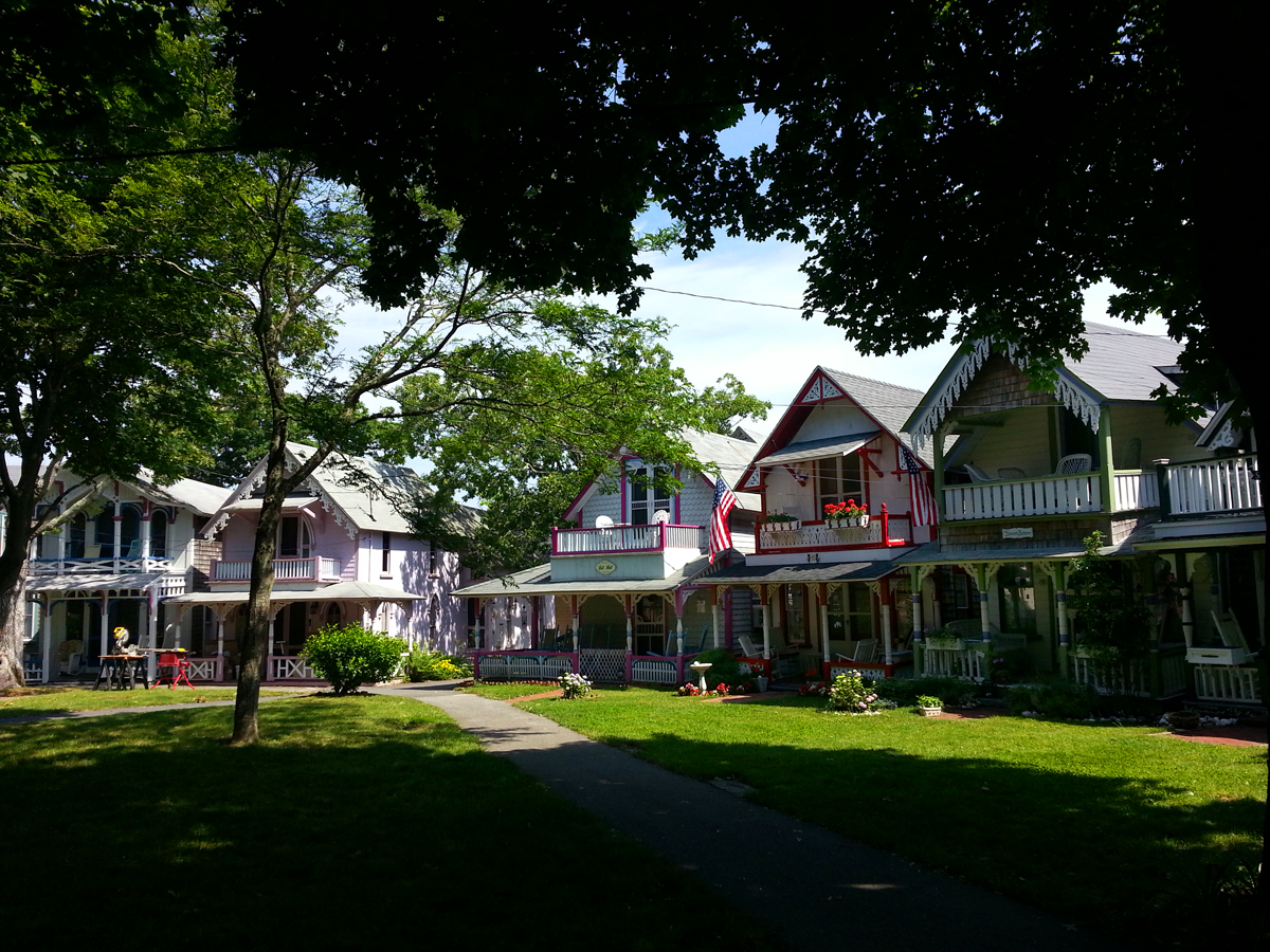 Wesleyan Grove, Oak Bluffs, Marthas Vineyard